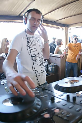 ... shot by me (pod_k)... with any concerns.